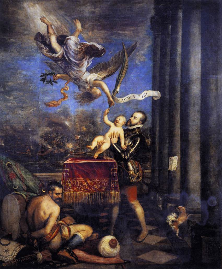 Titian, Following Victory at Lepanto, Felipe II offers Prince Fernando to Heaven, 1572-1575, oil on canvas, 335 × 274 cm Philip II offering Fernando to Victory. Museo del Prado, Madrid.Painted by Titian in his nineties, this allegorical work celebrates the victory of a Catholic coalition over the Ottoman Turks at the Battle of Lepanto in 1571 and the birth shortly afterwards of a male heir to King Philip II of Spain, Don Fernando, which were both seen as signs of God's favour. The battle is shown in the background, and a bound and defeated Turk at Philip's feet. An angel descends from heaven bearing a palm branch with a motto for Fernando, who is held up by Philip: "Majora tibi" (may you achieve greater deeds). Titian died in 1576 and Prince Fernando in 1578. Lepanto effectively ended Ottoman ambitions in the western Mediterranean. (Reference: Robert Enggass and Jonathan Brown, Italian and Spanish Art, 1600–1750: Sources and Documents, Evanston: IL: Northwestern University Press, 1992, ISBN 0810110652, p. 213.